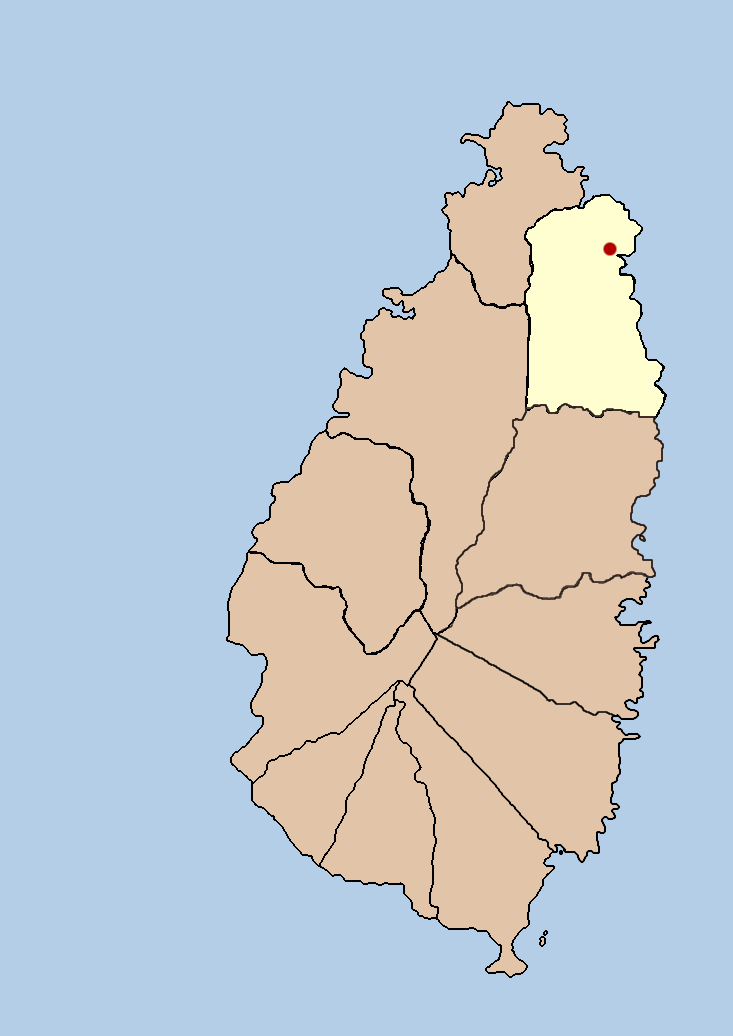 this is a political map showing the quarter of Dauphin on the island nation of Santa Lucia. I created it myself by using the GIMP to trace a public domain map that i found at the Perry-Castañeda Library Map Collection.